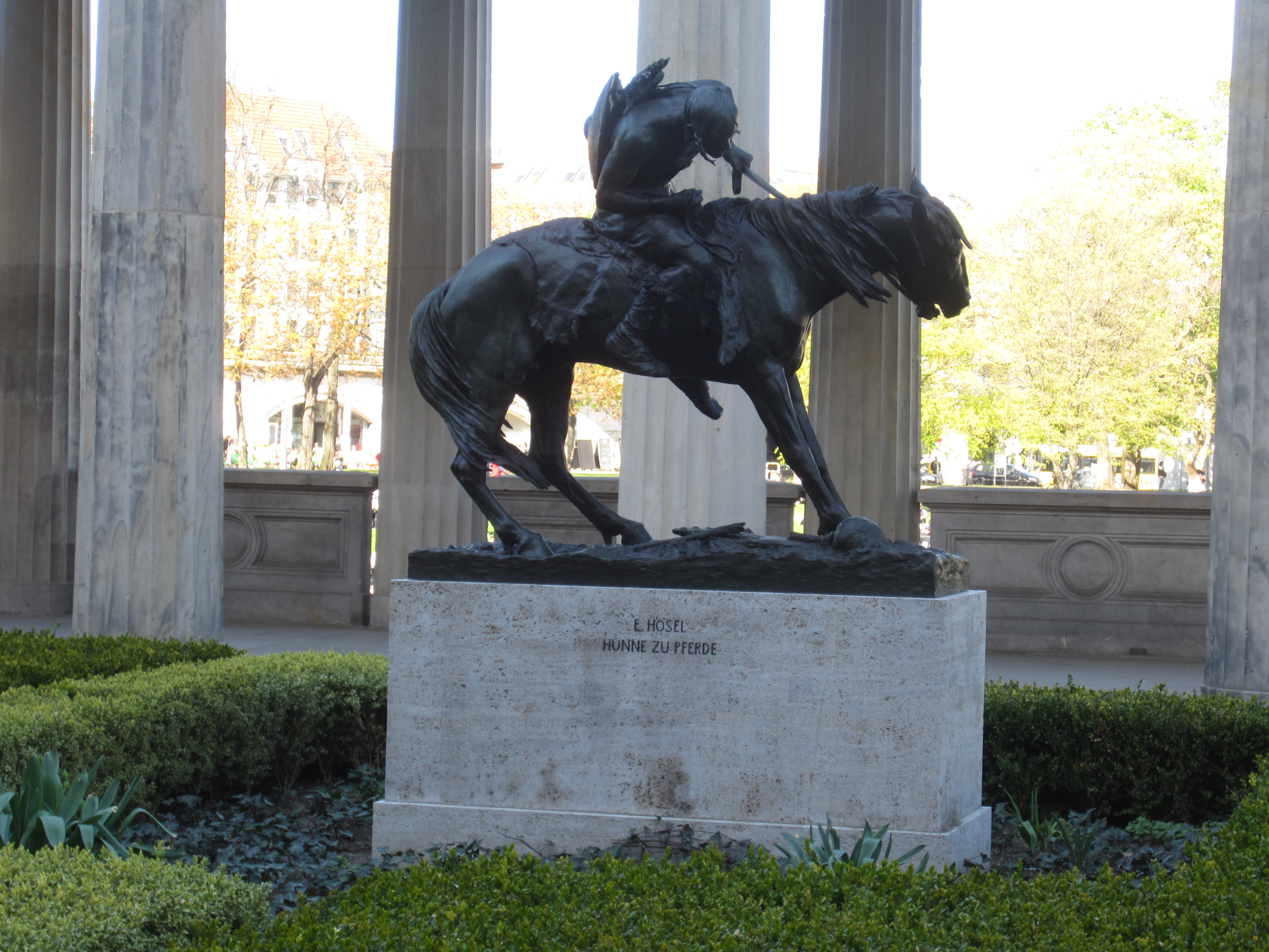 Hunne zu Pferde, Berlin, Germany (April 2016)